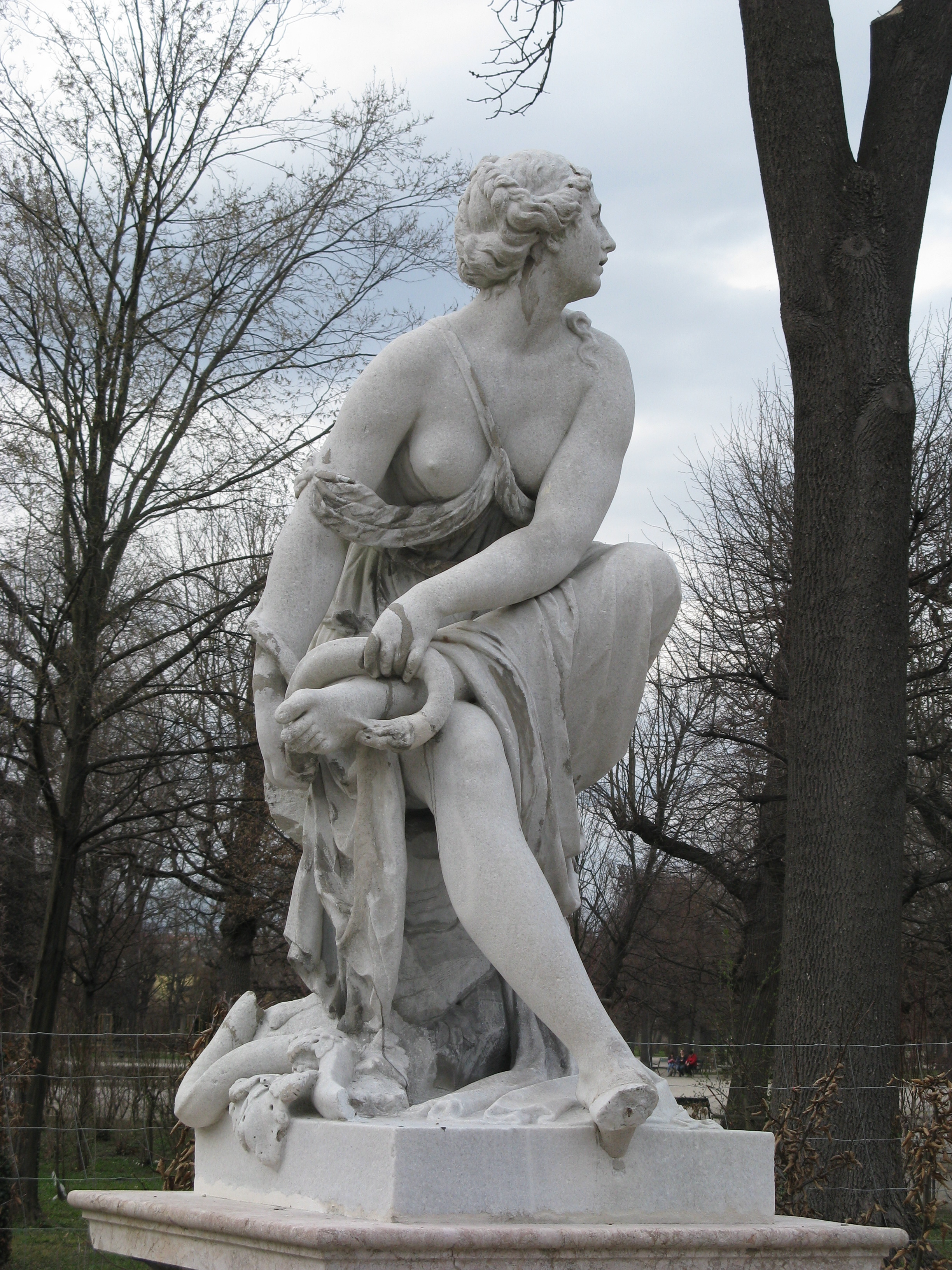 Statues in the Gardens of Schönbrunn - Eurydice.